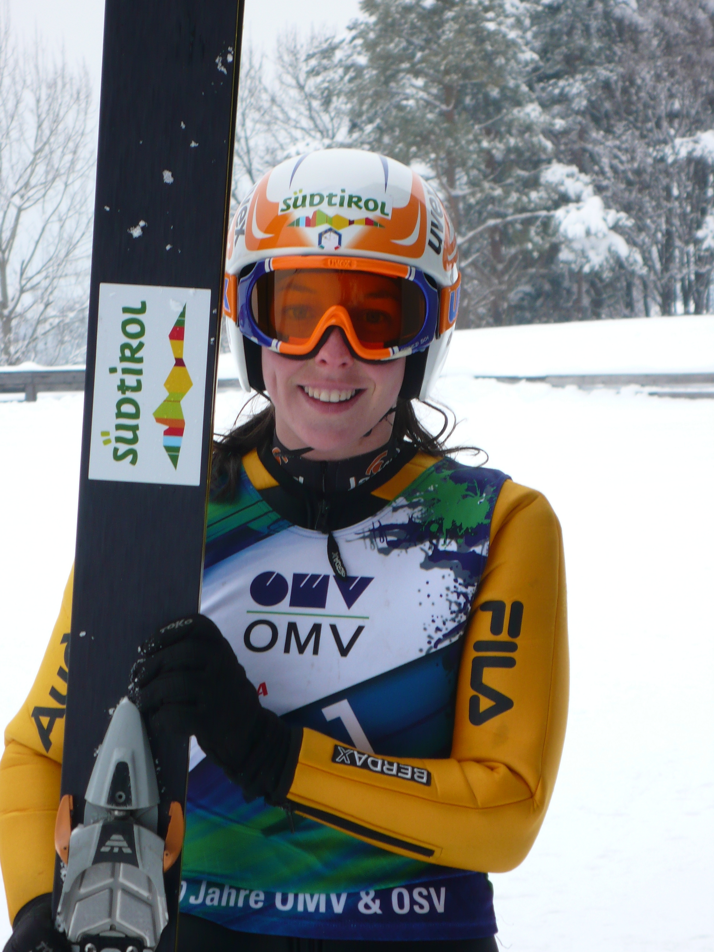 Lisa Demetz, at the Ski jumping Continental Cup in Villach on the 2010-02-12.